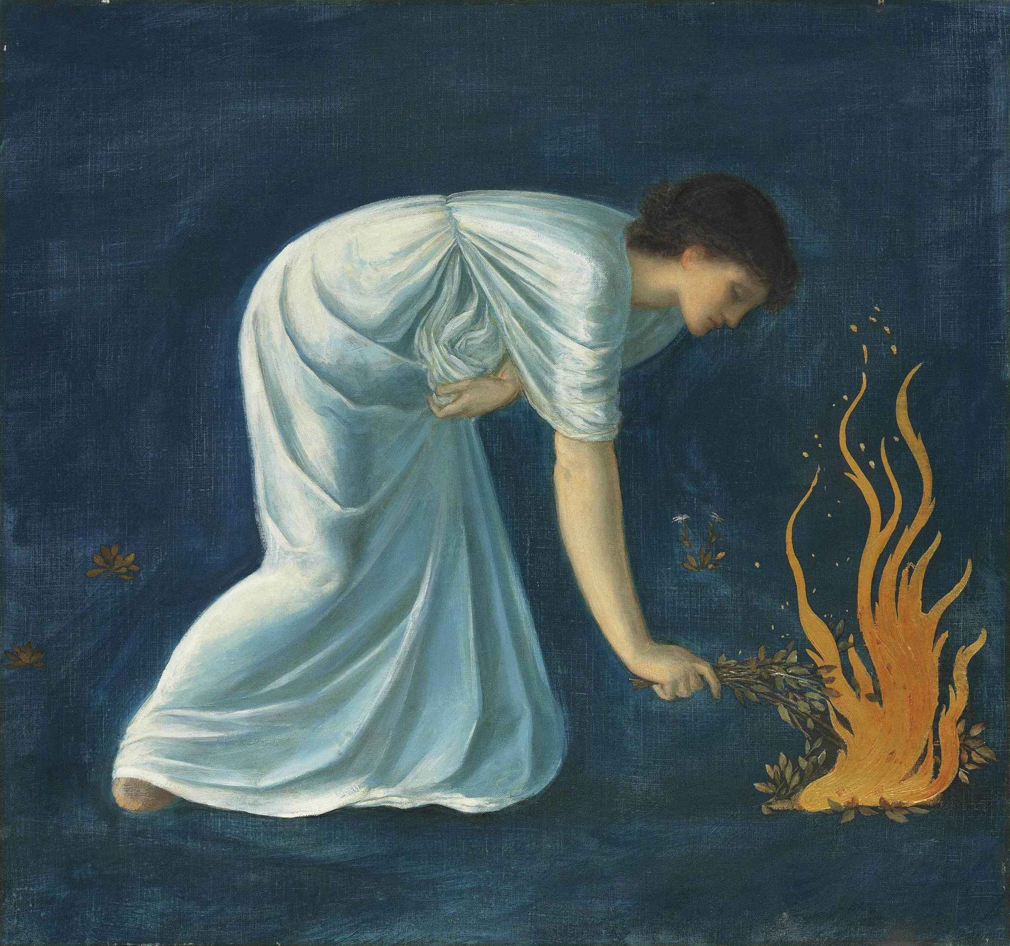 Hero lighting the Beacon for Leander